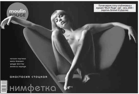 Front page of Novy Vzglyad weekly